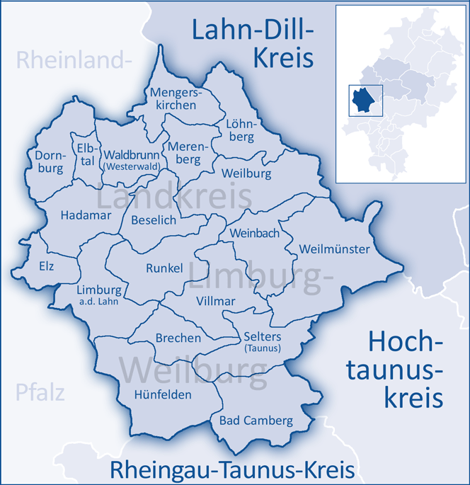 The map shows a district in the area of Limburg-Weilburg